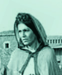 Cast of Al Resala ( the message) Film. A photo of Mustapha el Akkad an horse back with Anthony Quin, Irene Papas, Mona Wassef (second from right) and Abdullah Ghaith.